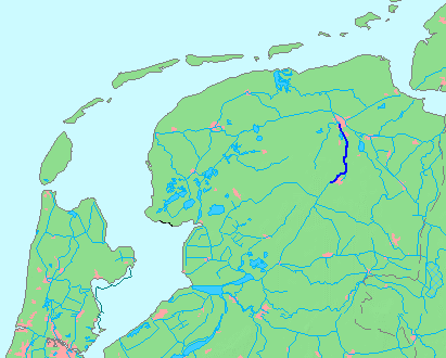 Location of a waterway (river/canal) in the Netherlends